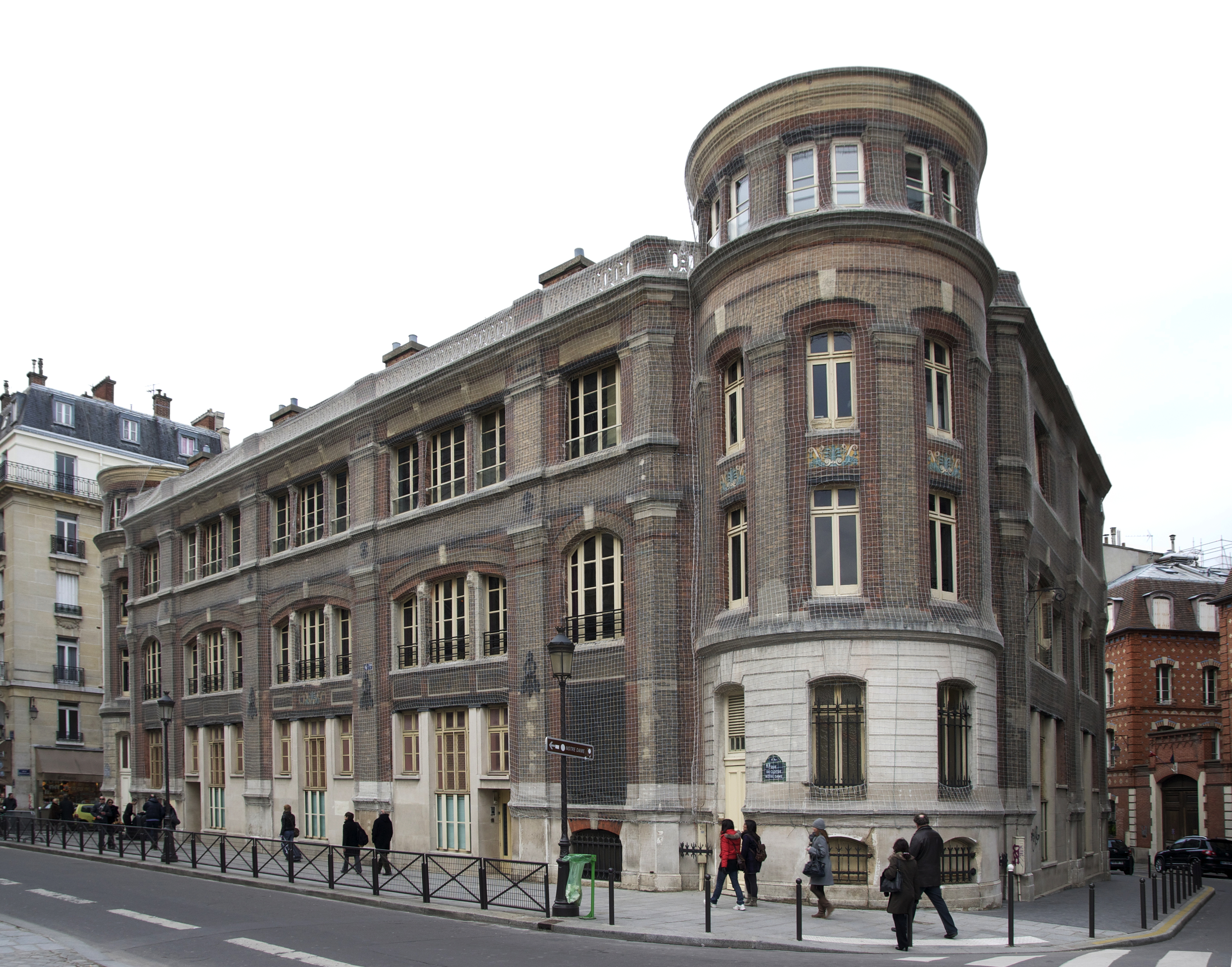 A whole building under a safety net